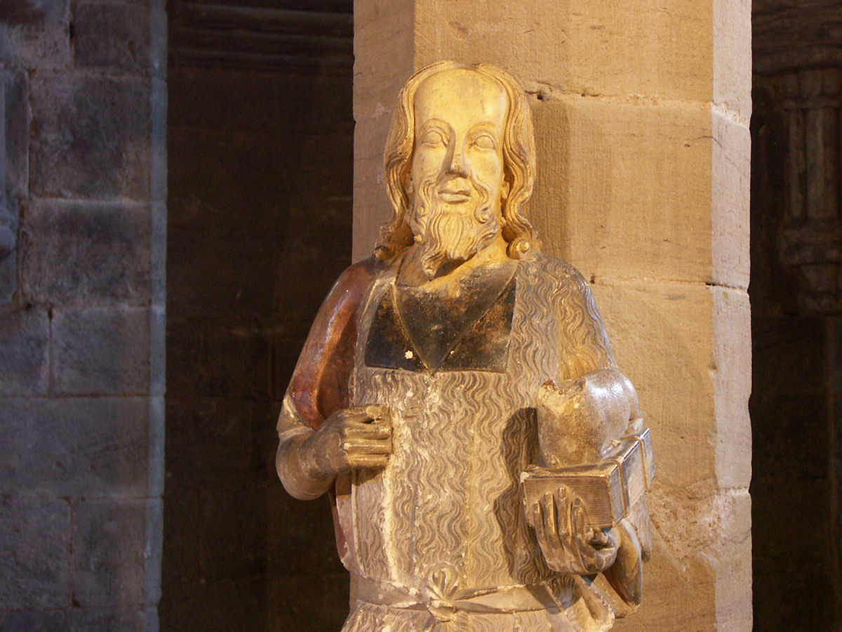 Hereford Cathedral, England - Statue in the Crypt